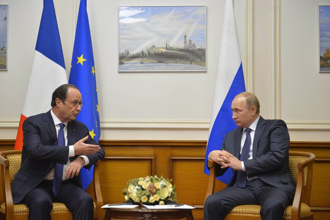 François Hollande, President of France and Vladimir Putin, President of the Russian Federation. Moscow, 6 dec 2014.